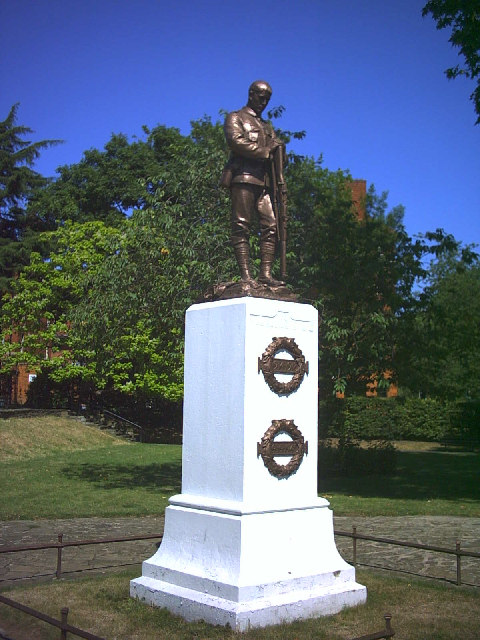 War Memorial, Streatham. On the north corner of Streatham High Road (A23) and Streatham Common North (A214).